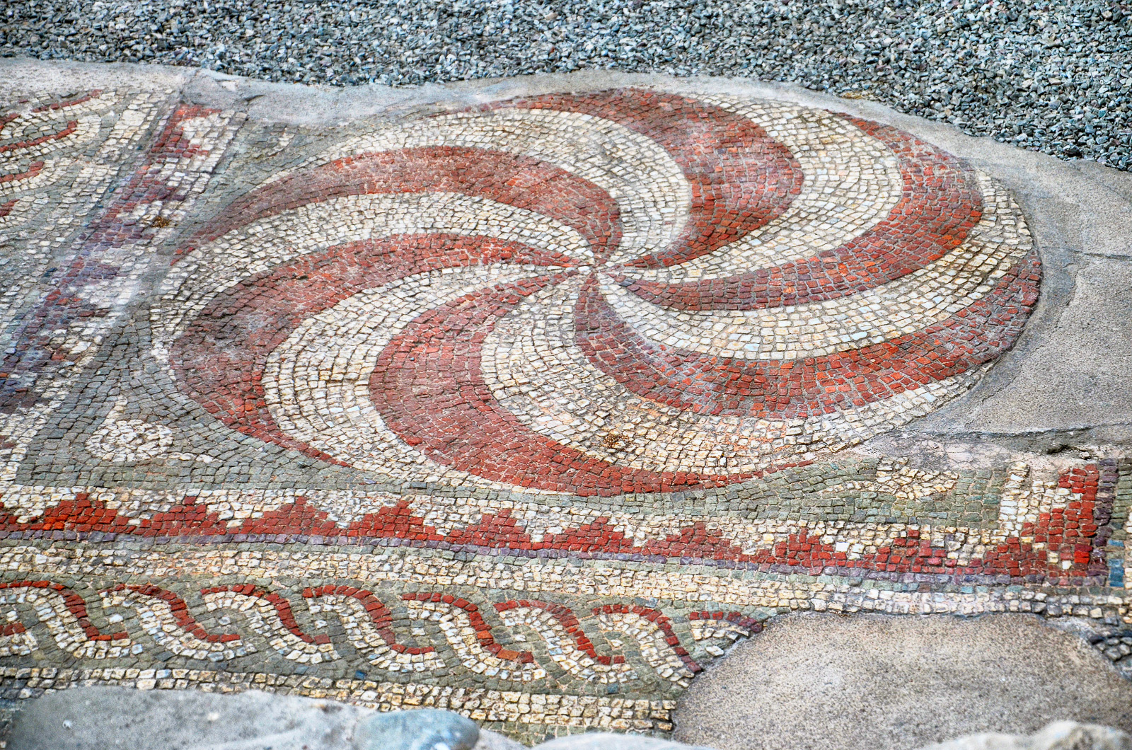 Tirana Mosaic